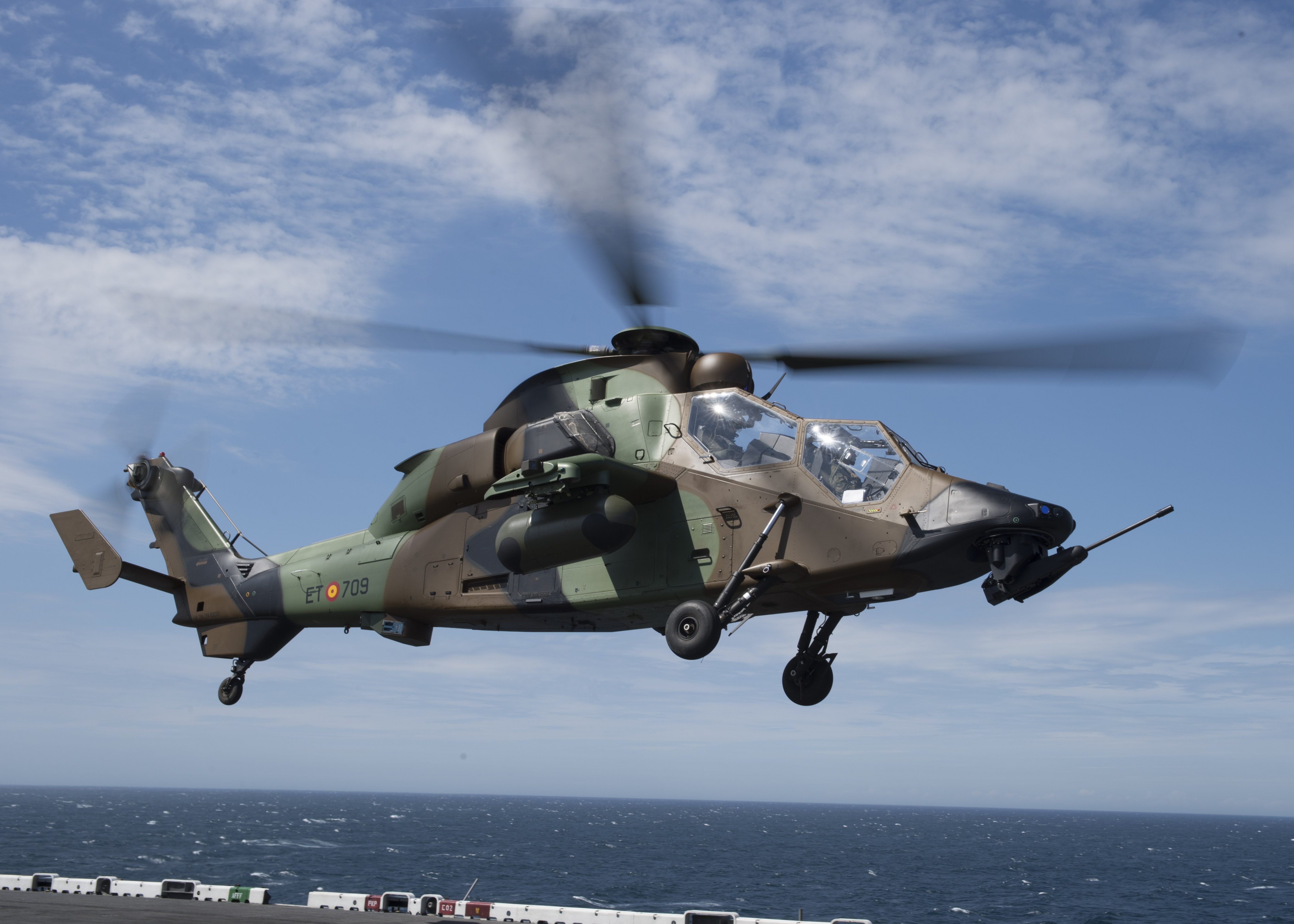 A Spanish Eurocopter Tiger takes off from the flight deck of the amphibious assault ship USS Kearsarge (LHD-3). Kearsarge, part of the Kearsarge Amphibious Ready Group, is conducting naval operations in the U.S. 6th Fleet area of operations in support of U.S. national security interests in Europe.